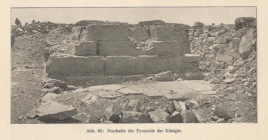 A photograph of the remains of the cult pyramid in Nyuserre's pyramid complex. Taken from Ludwig Borchardt's Das Grabdenkmal des Königs Ne-User-Re (1907).